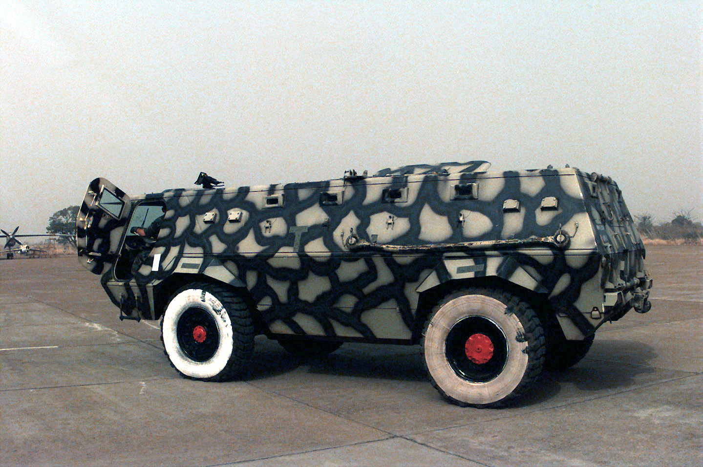 Mali Army Fahd APC is prepared to be loaded into a US C-130E Hercules aircraft. The vehicle belongs to the Economic Community Military Observation Group (ECOMOG). This APC will be transported with Mali Army Troops to Roberts International Airport in Liberia for a six month deployment in support of Operation ASSURED LIFT. ASSURED LIFT is a Joint Task Force (JTF) operation to provide airlift and other logistical support to West African states that are deploying more than 600 troops to Liberia as part of the regions ongoing peacekeeping mission. Most of the inbound West African forces will come from the country of Mali, with the Ivory Coast and Ghana also expected to contribute troops.